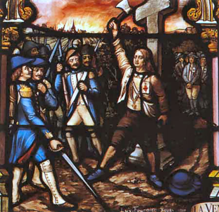 Stained glass window of the Sainte-Gemme church in Sainte-Gemme-la-Plaine presenting André Ripoche defending the Cross of Bas-Briacé against French republican soldiers at Le Landreau, 1794-03-08